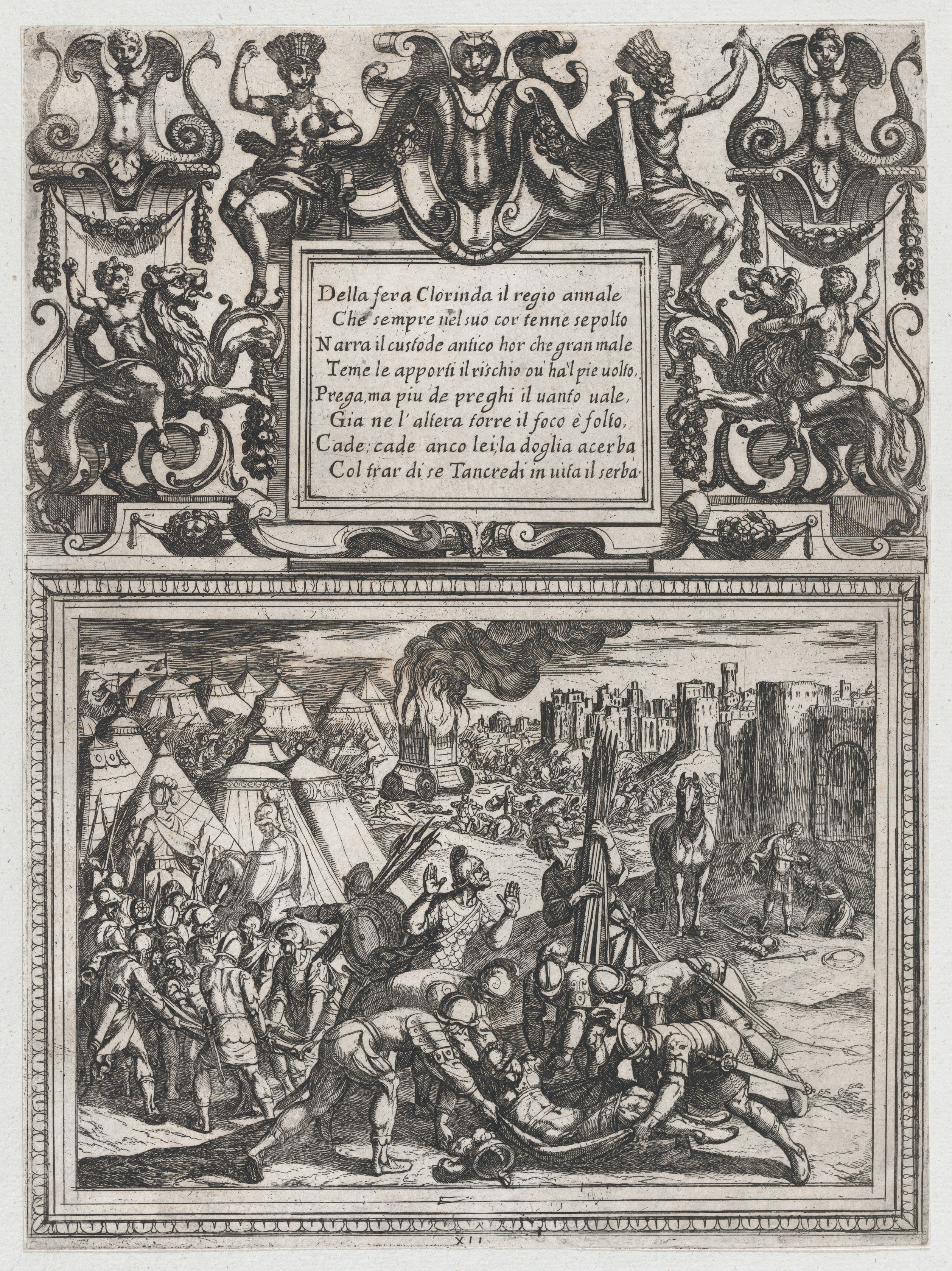 Print; Prints